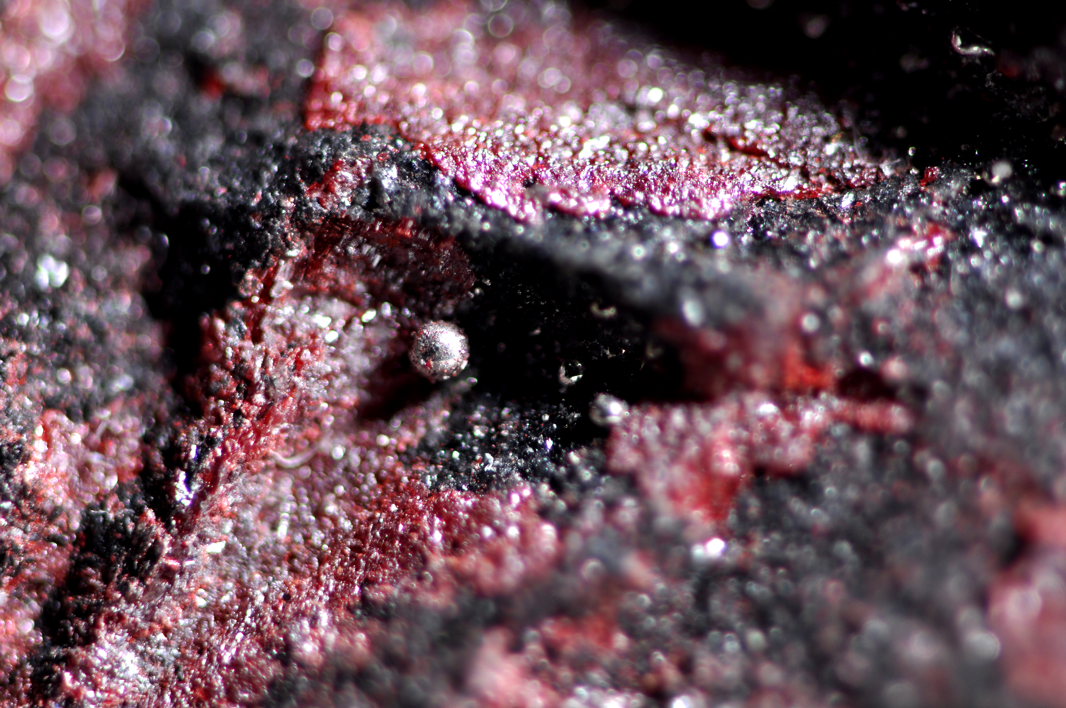 Mercury, Cinnabar